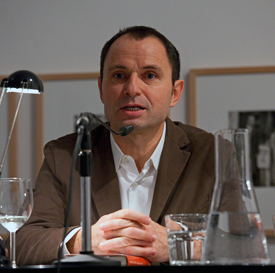 Austrian writer Norbert Gstrein at Literaturhaus Cologne, 2009-02-02